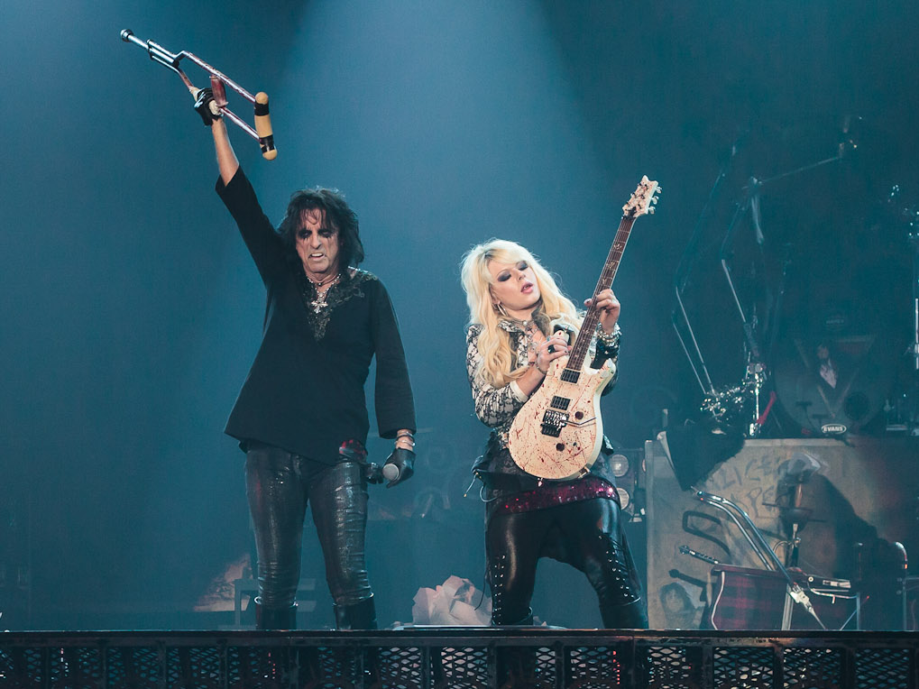 Alice Cooper and Orianthi performing live during Halloween Night of Horror at Wembley Arena, London, England on 28 October 2012